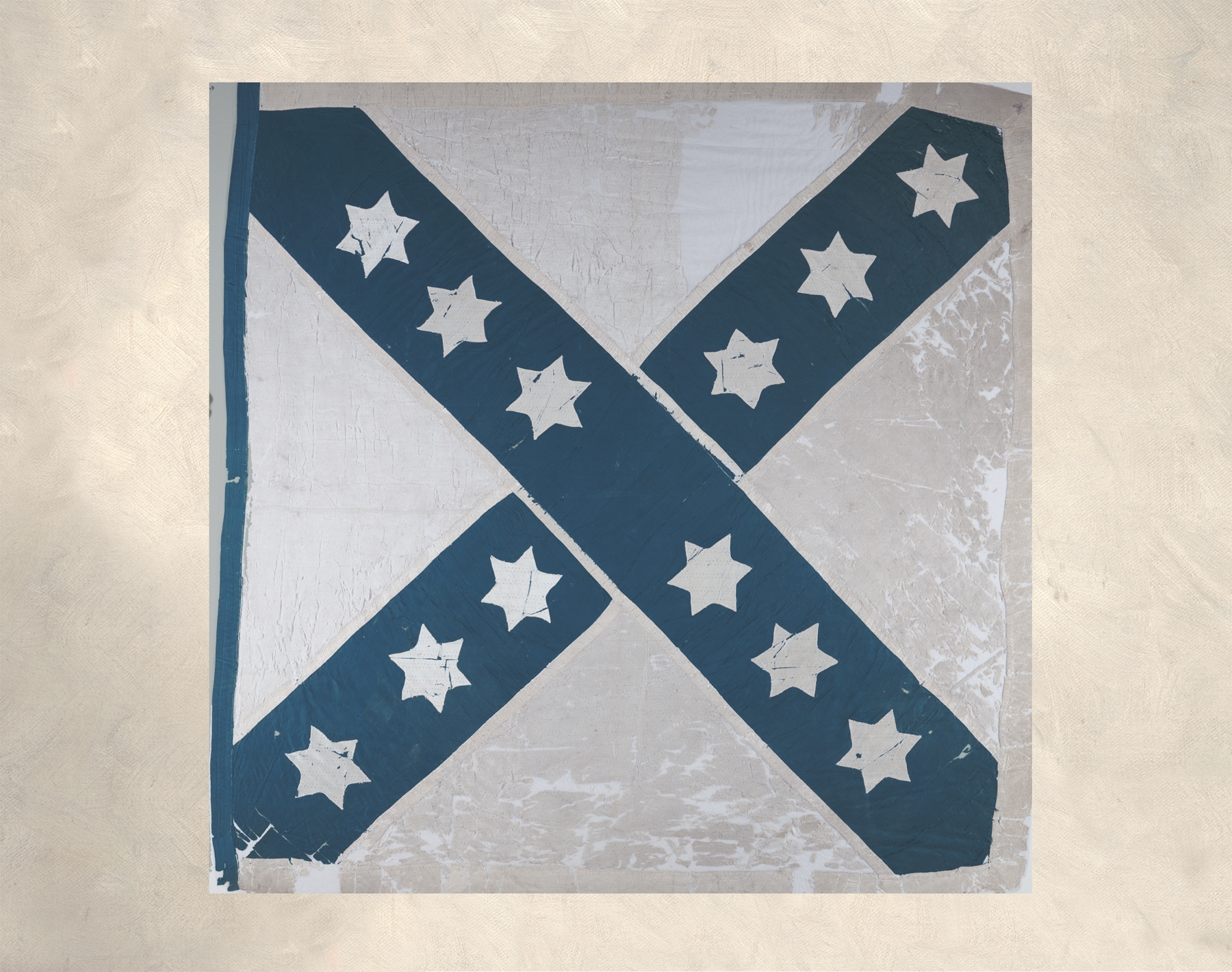 Battle flag of the 11th Mississippi Infantry Regiment, captured at Antietam by the 2nd Massachusetts Infantry Regiment. (MASS MOLLUS artifact collection).